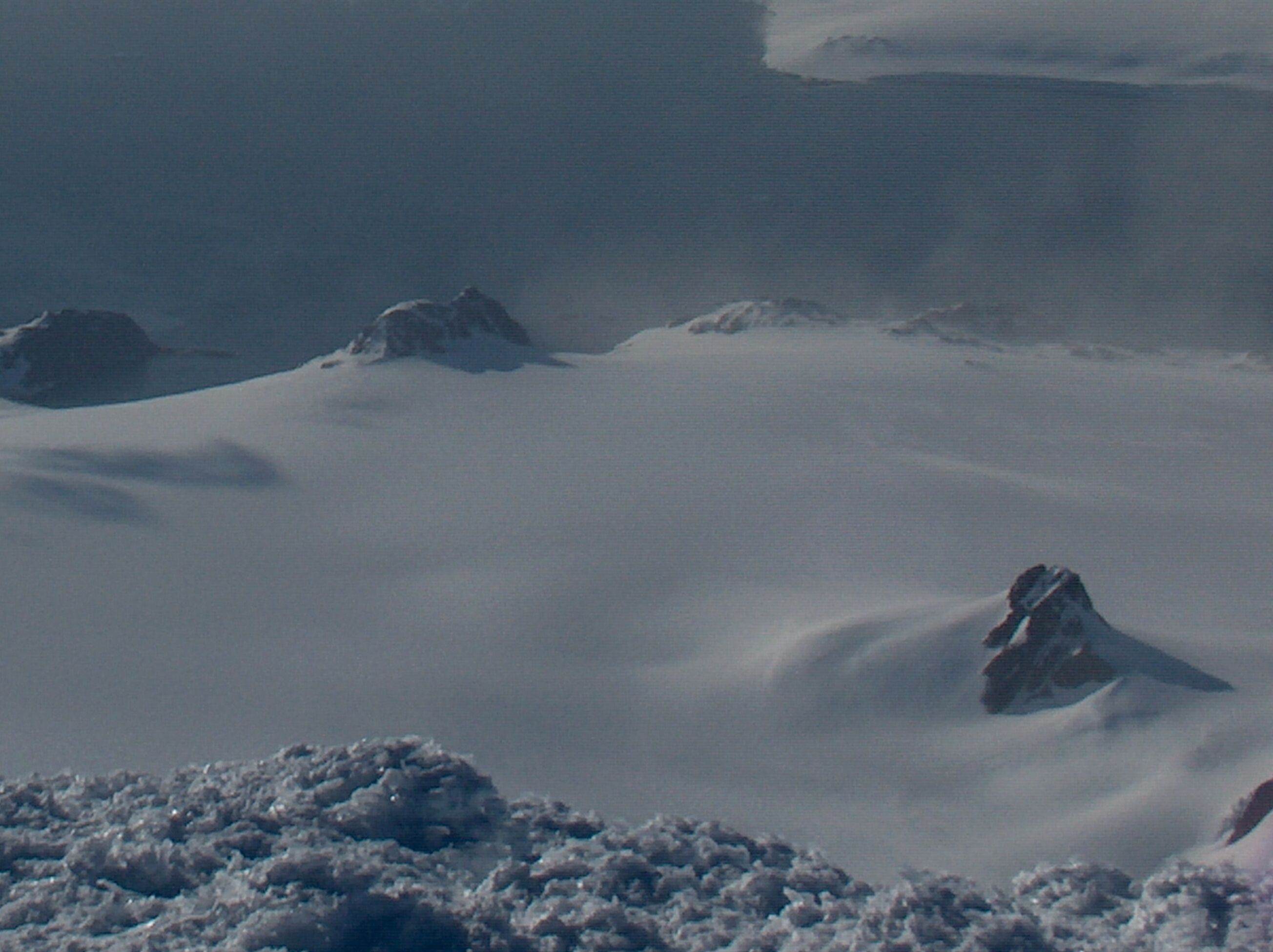 South Bay from the summit Mount Friesland of Livingston Island, Antarctica, with Castillo Nunatak in the foreground and Ereby Point in the background.